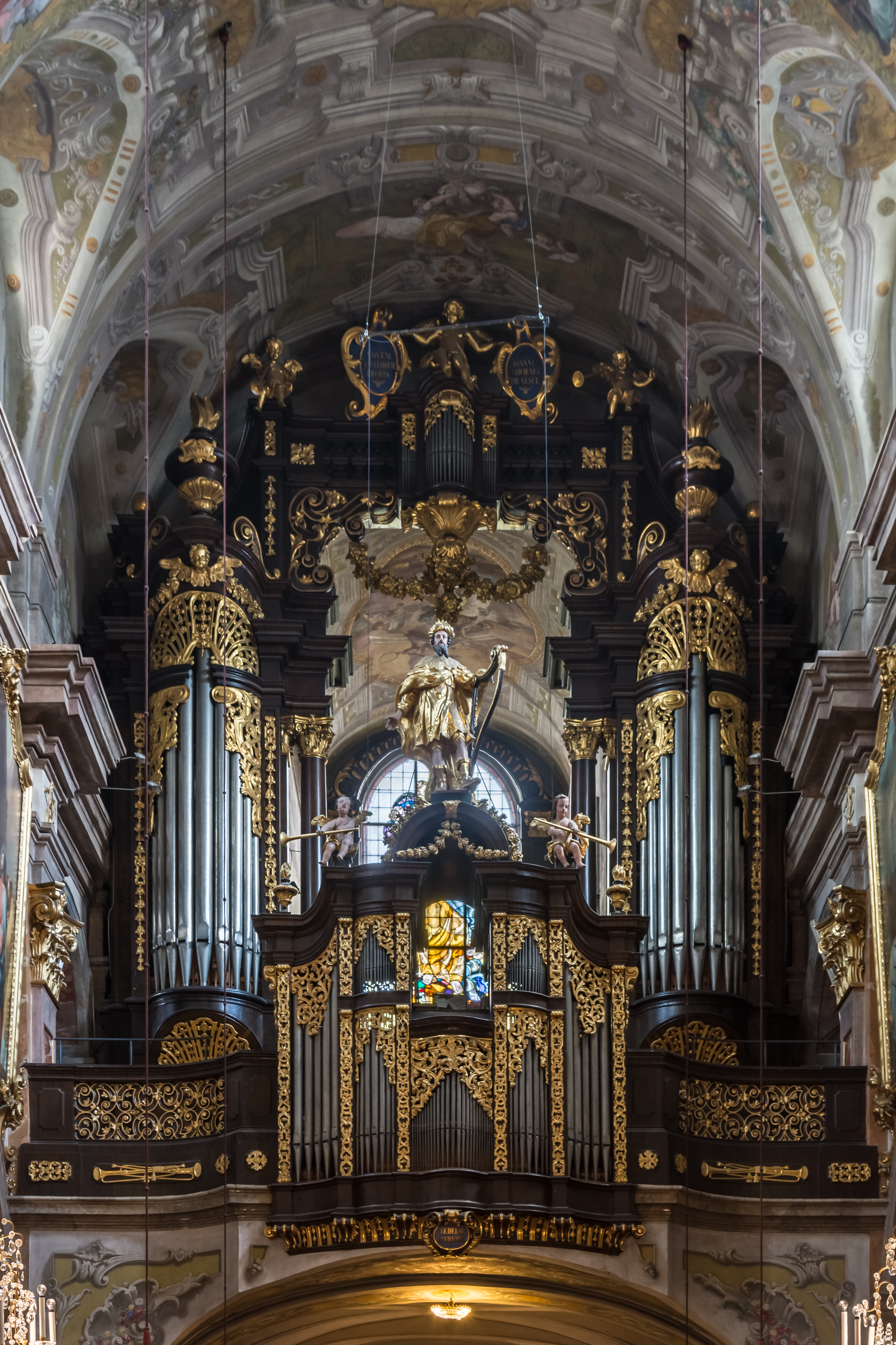 Organ of St. Pölten Cathedral, Lower Austria. Baroque case of the organ by Johann Ignaz Egedacher 1722.